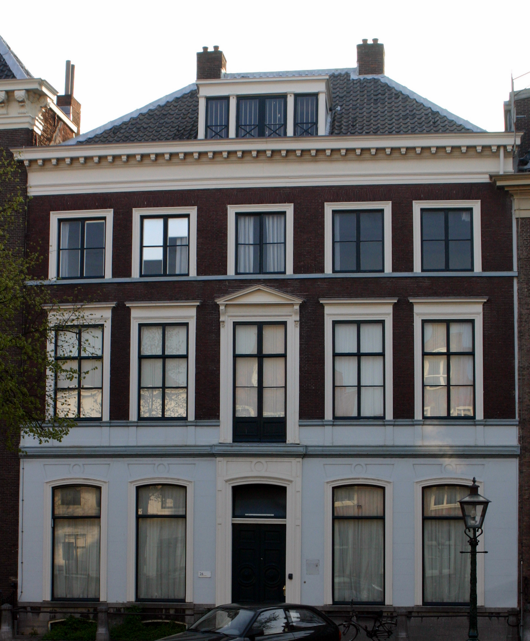 The former National museum of coins and medals (Het Koninklijk Penningkabinet) at the Rapenburg 28.